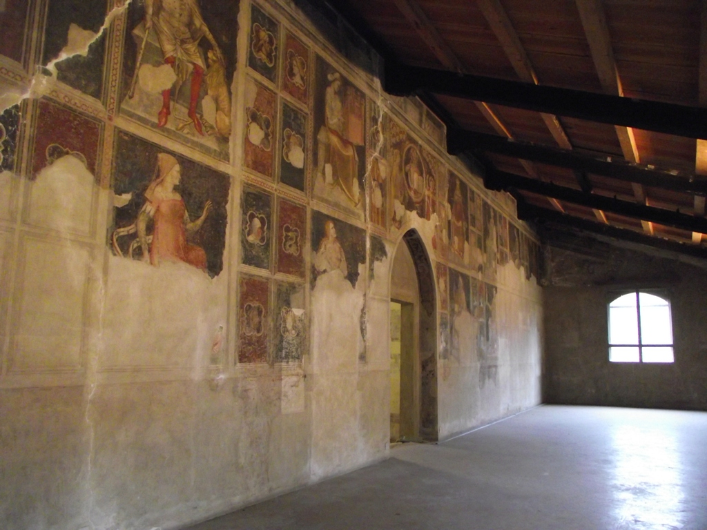 Stefano da Ferrara, allegories of Virtues and Vices, fresco, 1360-1370, Salone Casa Minerbi - Del Sale, Ferrara